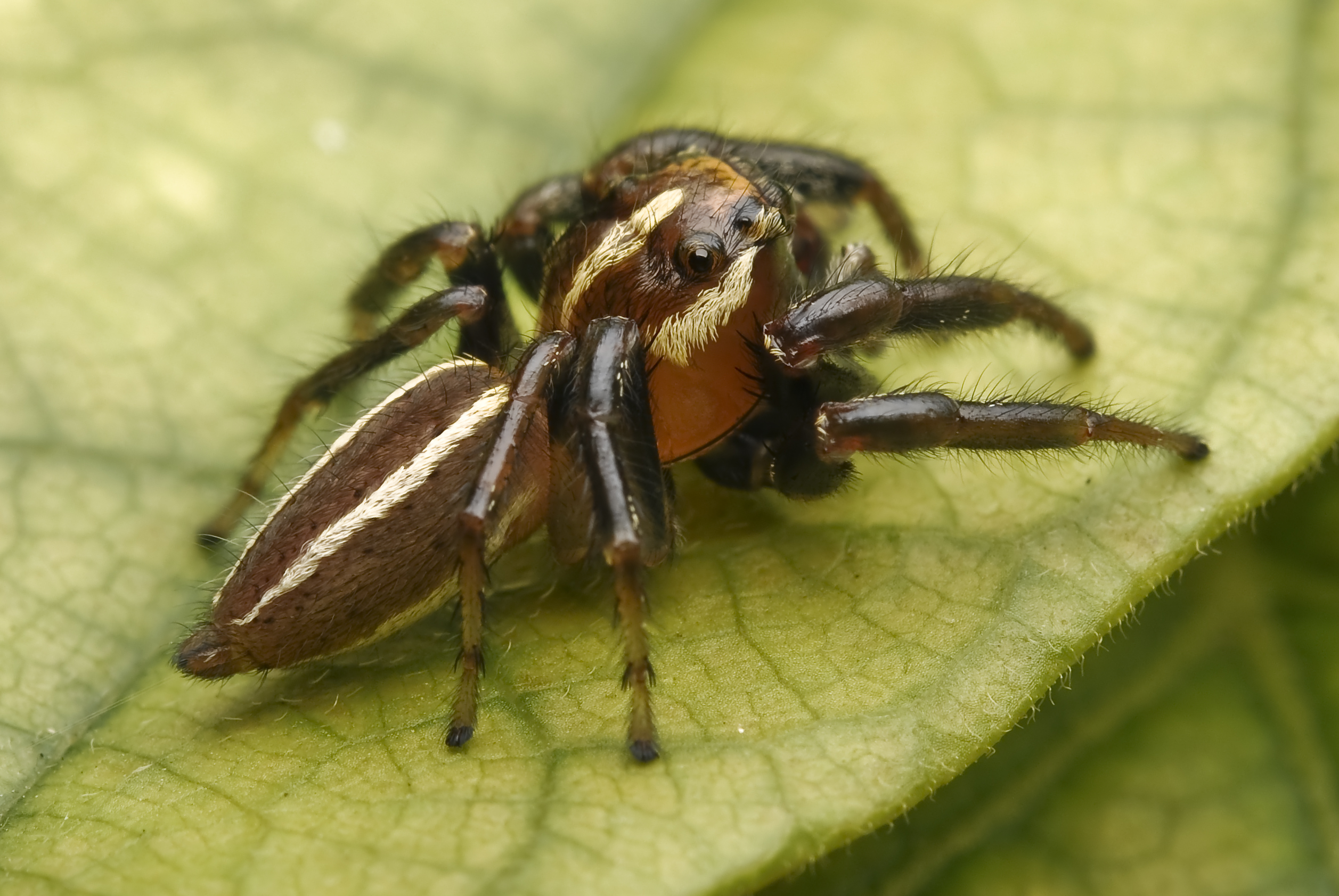 Thiodina puerpera jumping spider photographed in Mounds, Oklahoma, using a Nikon D60.